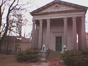 Burial place for T. Eaton in Mount Pleasant Cemetery, Toronto, Ontario, Canada. Taken by me (Zoltan Hawryluk) in November, 2003.